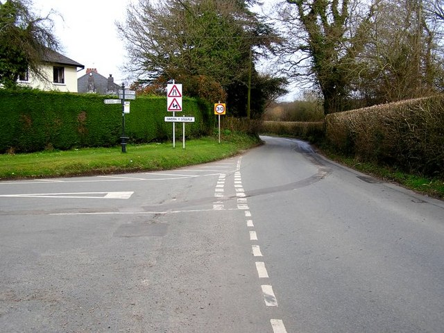 Gwern-y-Steeple Road junction in the small hamlet of Gwern-y-Steeple.